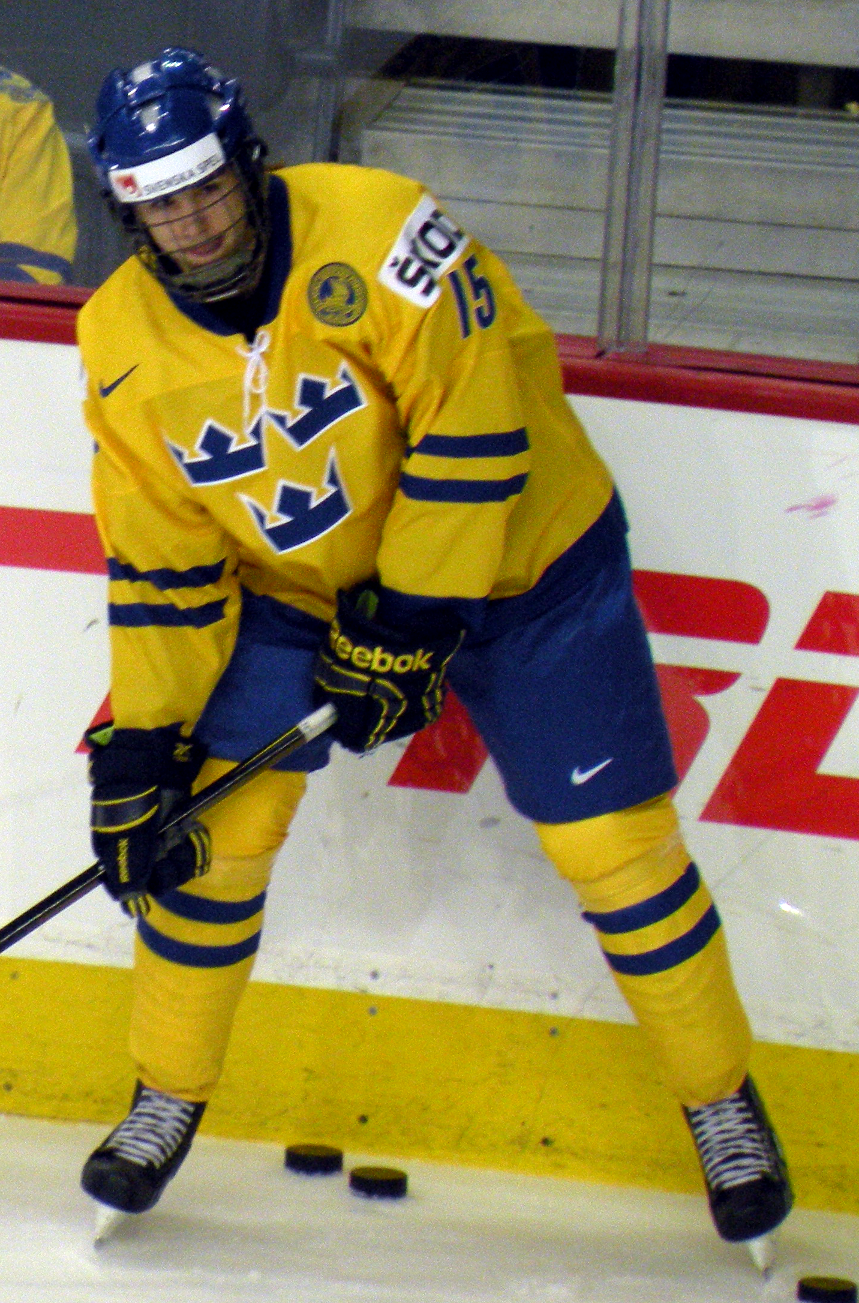 Swedish forward Sebastian Collberg prior to the gold medal game of the 2012 World Junior Hockey Championships at Calgary, Alberta, Canada.